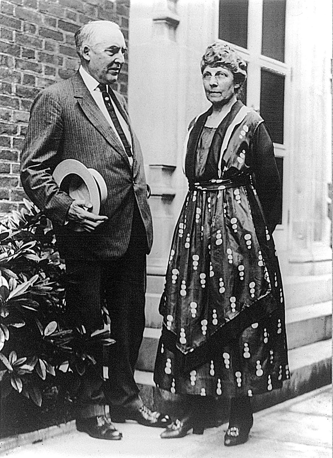 Pres. Warren G. Harding